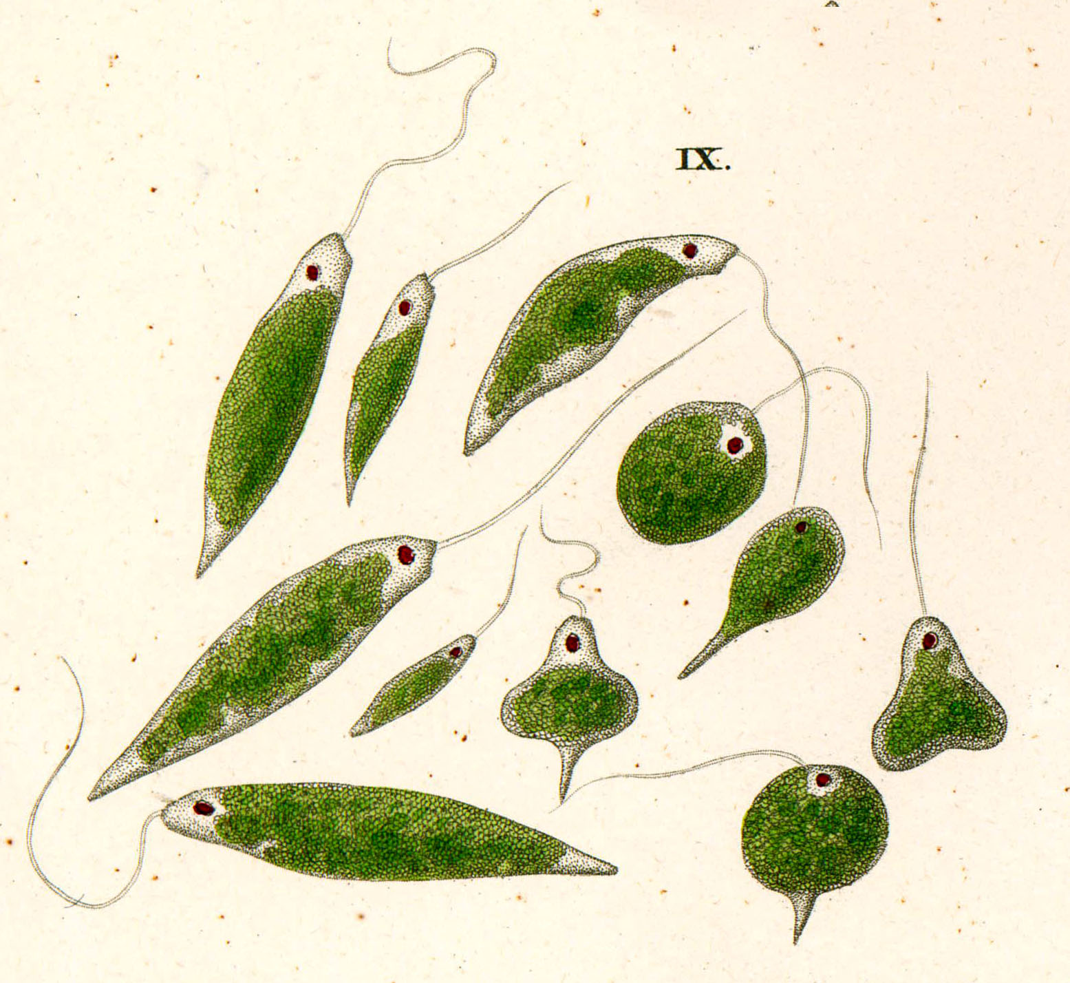 Portrait of Euglena viridis, from CG Ehrenberg, Die Infustionsthierhcen, 1838